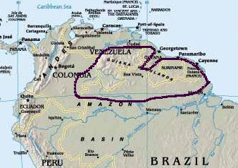 Guyana Shield